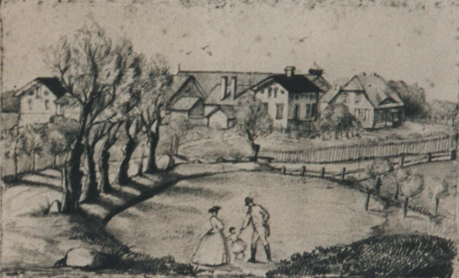 Manor Budda 1882, West Prussia. Today: Budy in the polish municipality Lubichowo, Starogard County, Pomeranian Voivodeship.